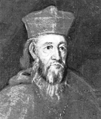 Cardinal George Martinuzzi (György Fráter) (1482–1551), Archbishop of Esztergom, chancellor of Transylvania.